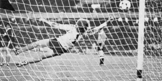 Teófilo Cubillas, free-kick during Peru v Scotland 1978 World Cupthe 1978 FIFA World Cup.